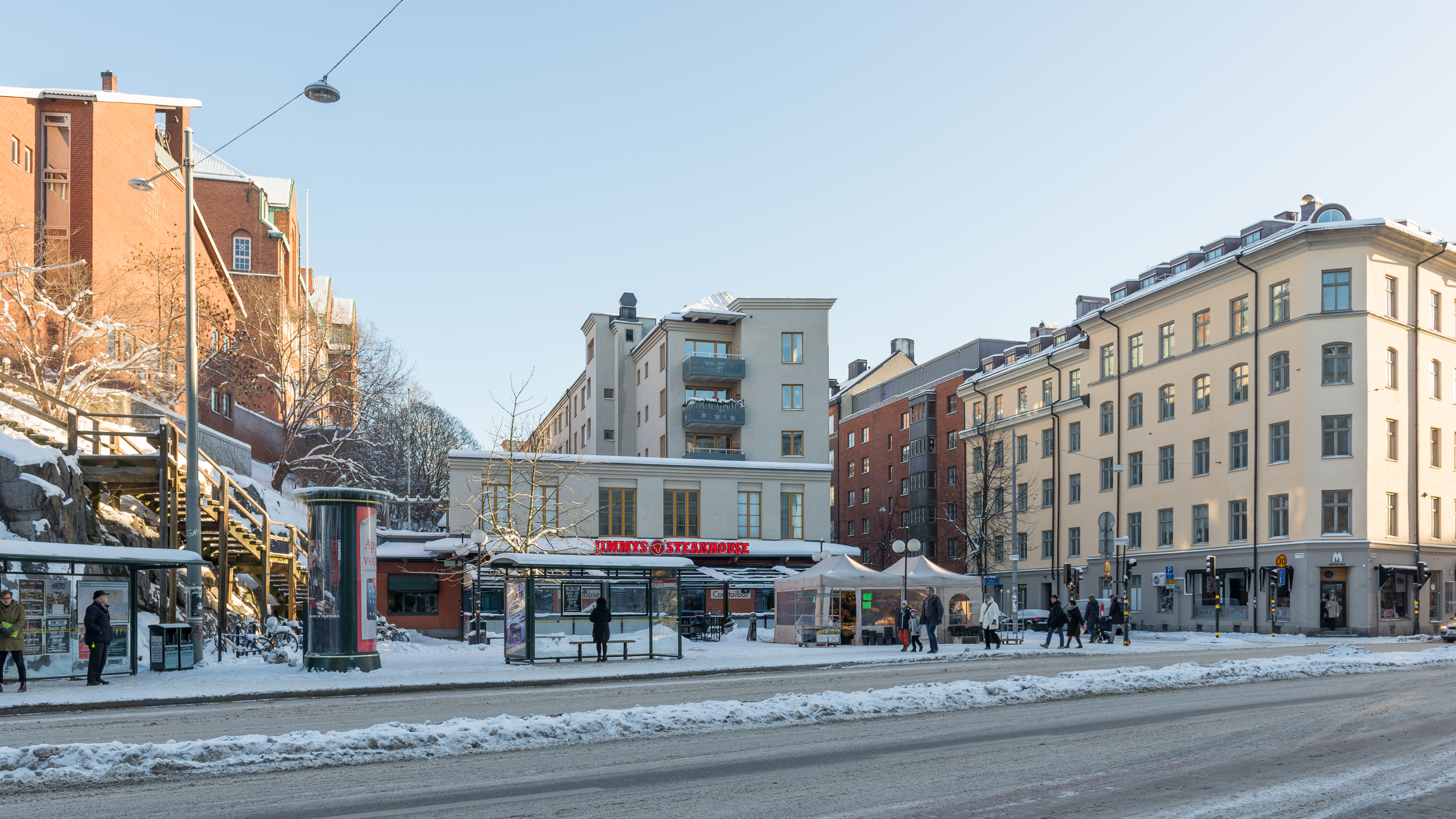 Tjärhovsplan, Södermalm Stockholm.